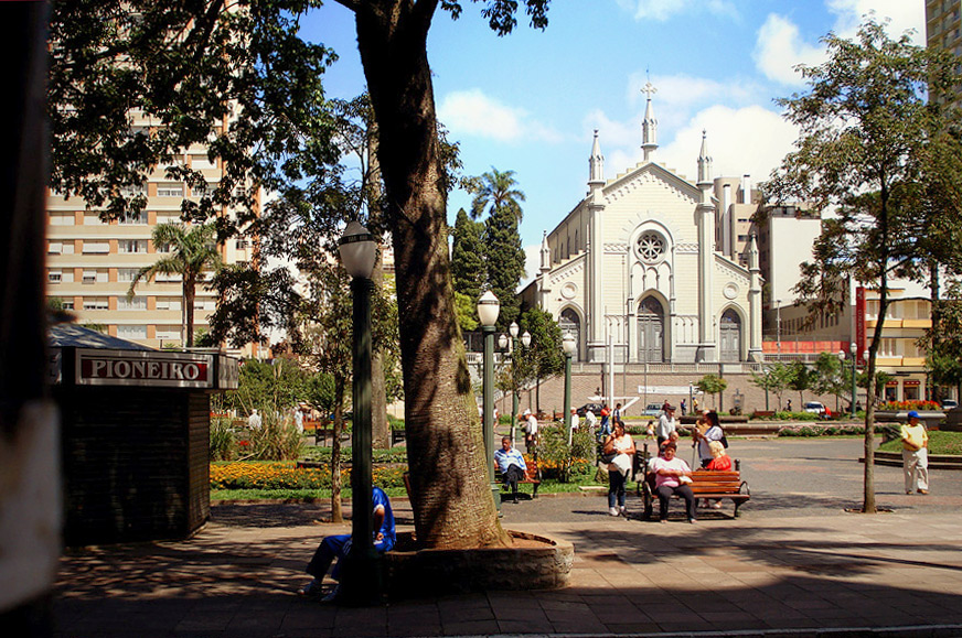 Cathedral of St. Teresa, seen from Dante Alighieri Square, Caxias do Sul, Brazil.